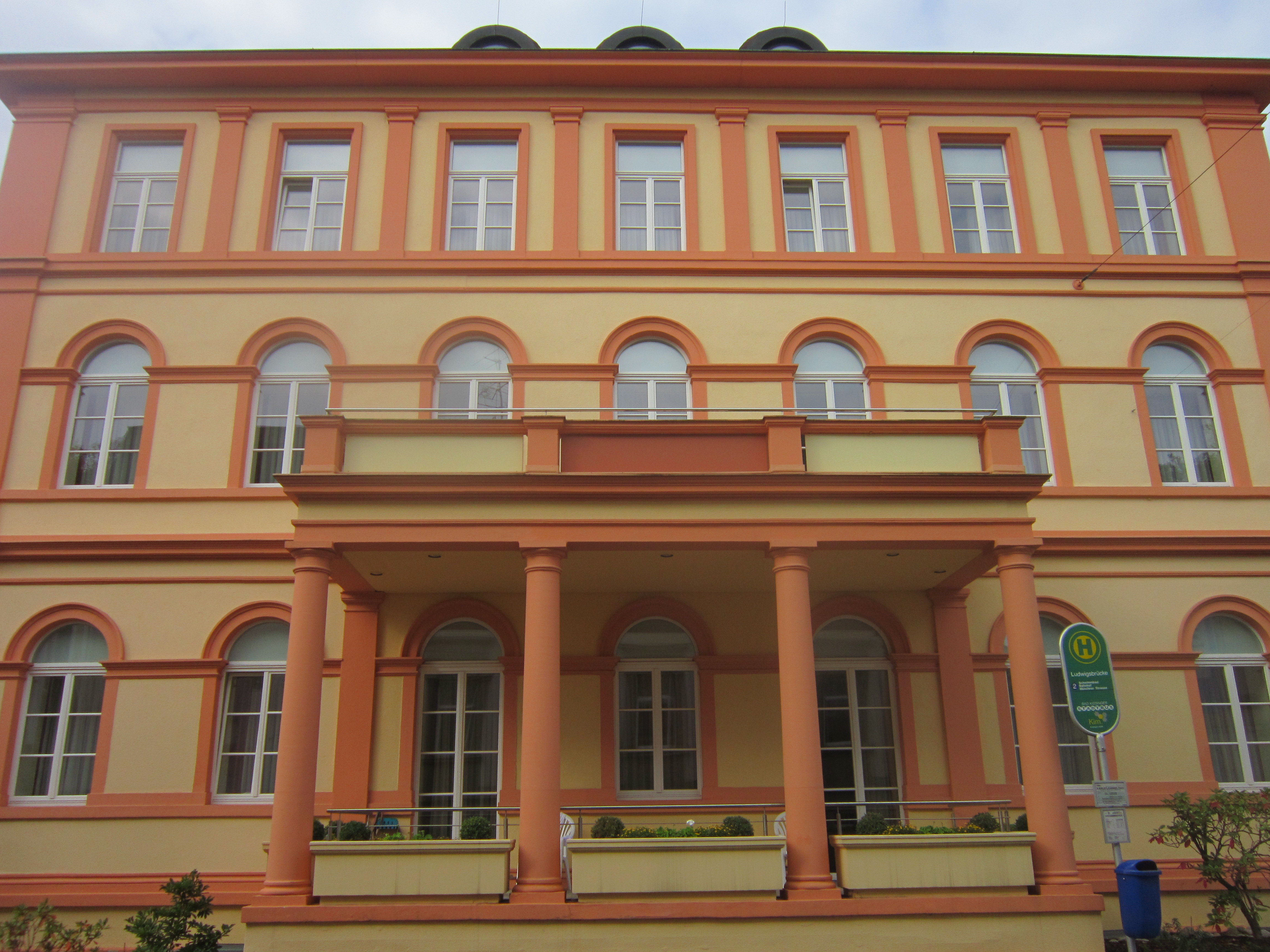 Building in the German spa town of Bad Kissingen in Lower Franconia (Bavaria) (Address: Bismarckstraße 24).